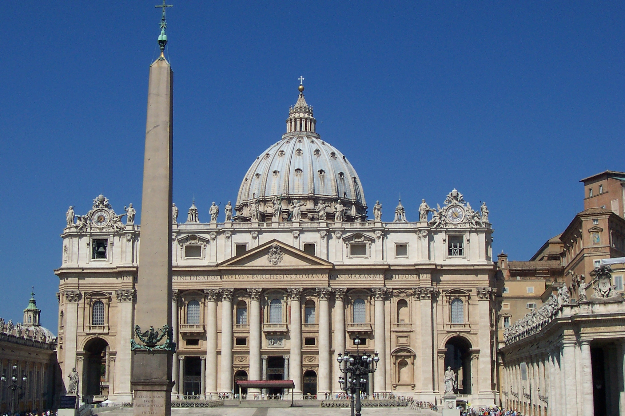 St. Peter's Basilica